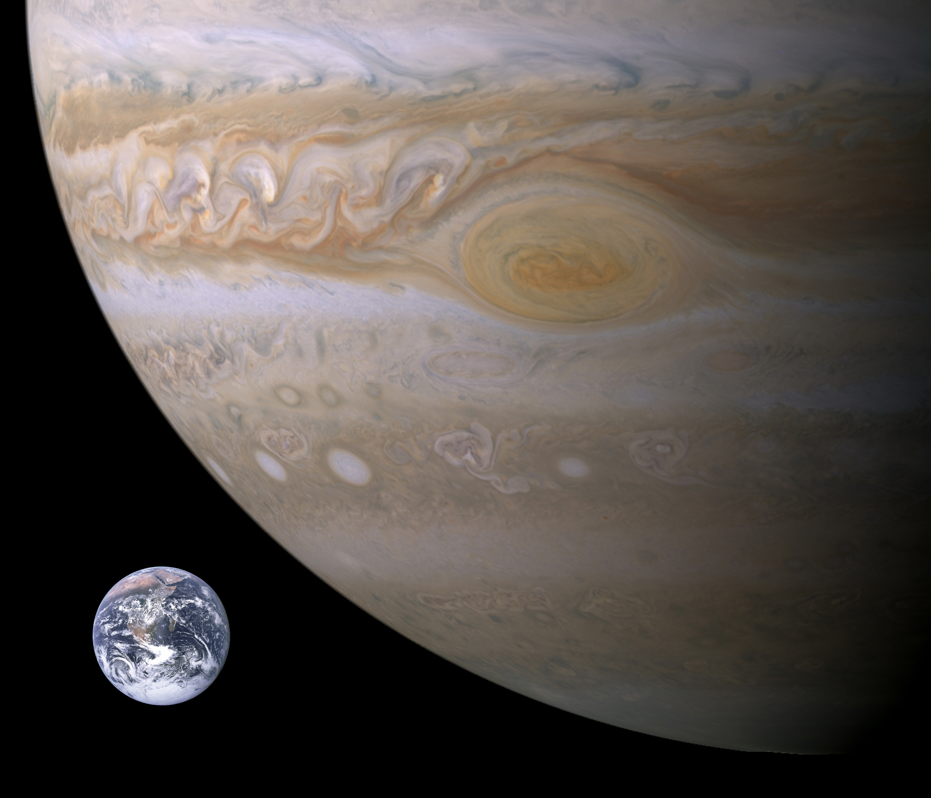 Rough visual comparison of Jupiter, Earth, and the Great Red Spot. Approximate scale is 44 km/px.